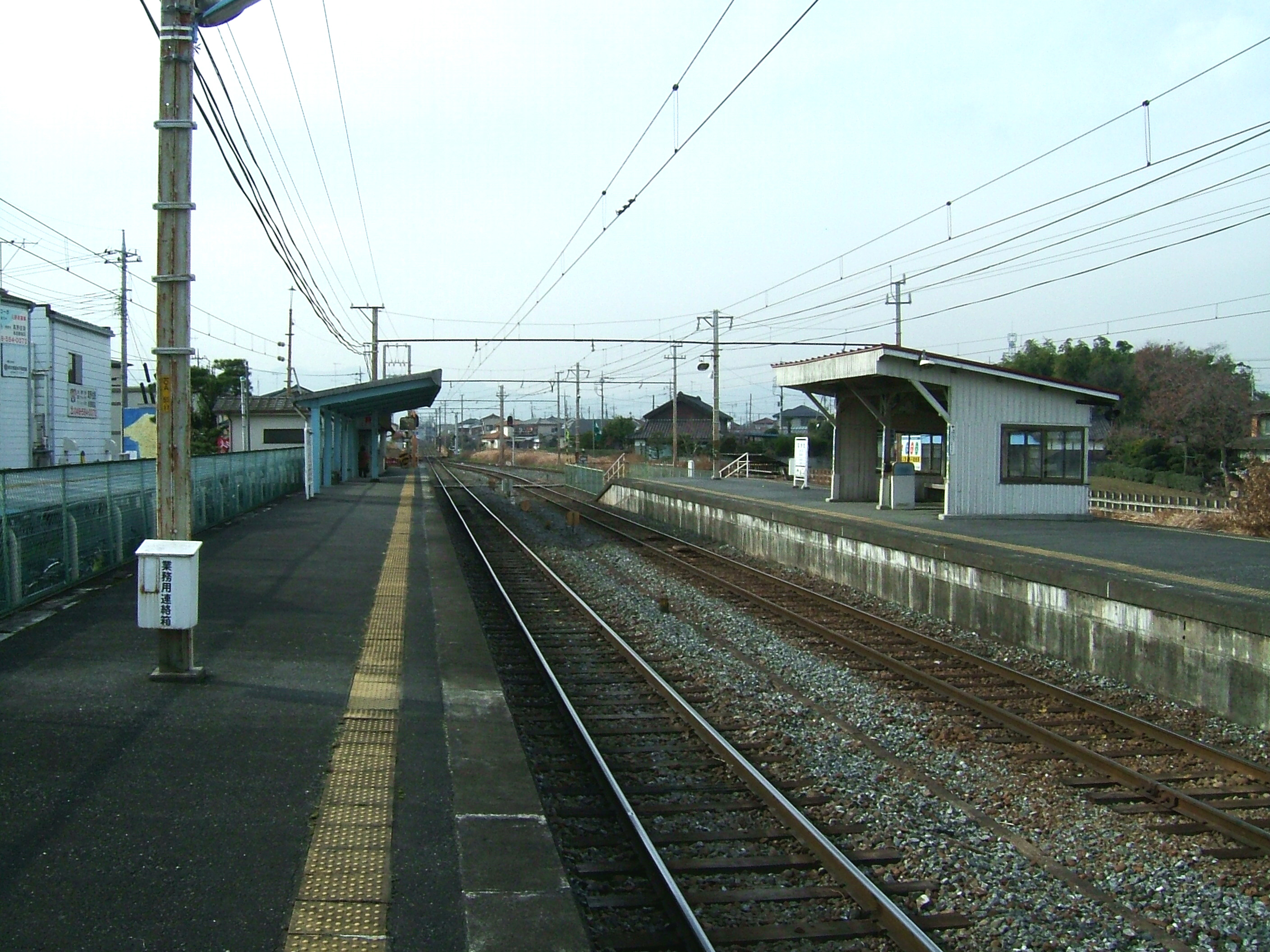 The platforms at Nagata Station on the Chichibu Main Line